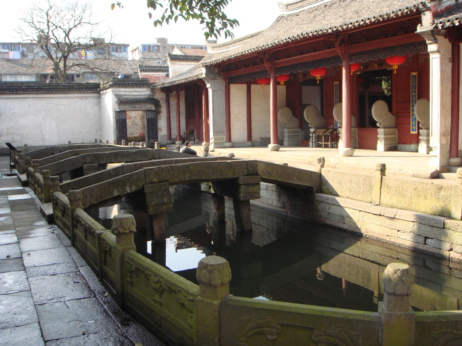 Panchi in Confucious Temple of Cicheng County, Ningbo, China